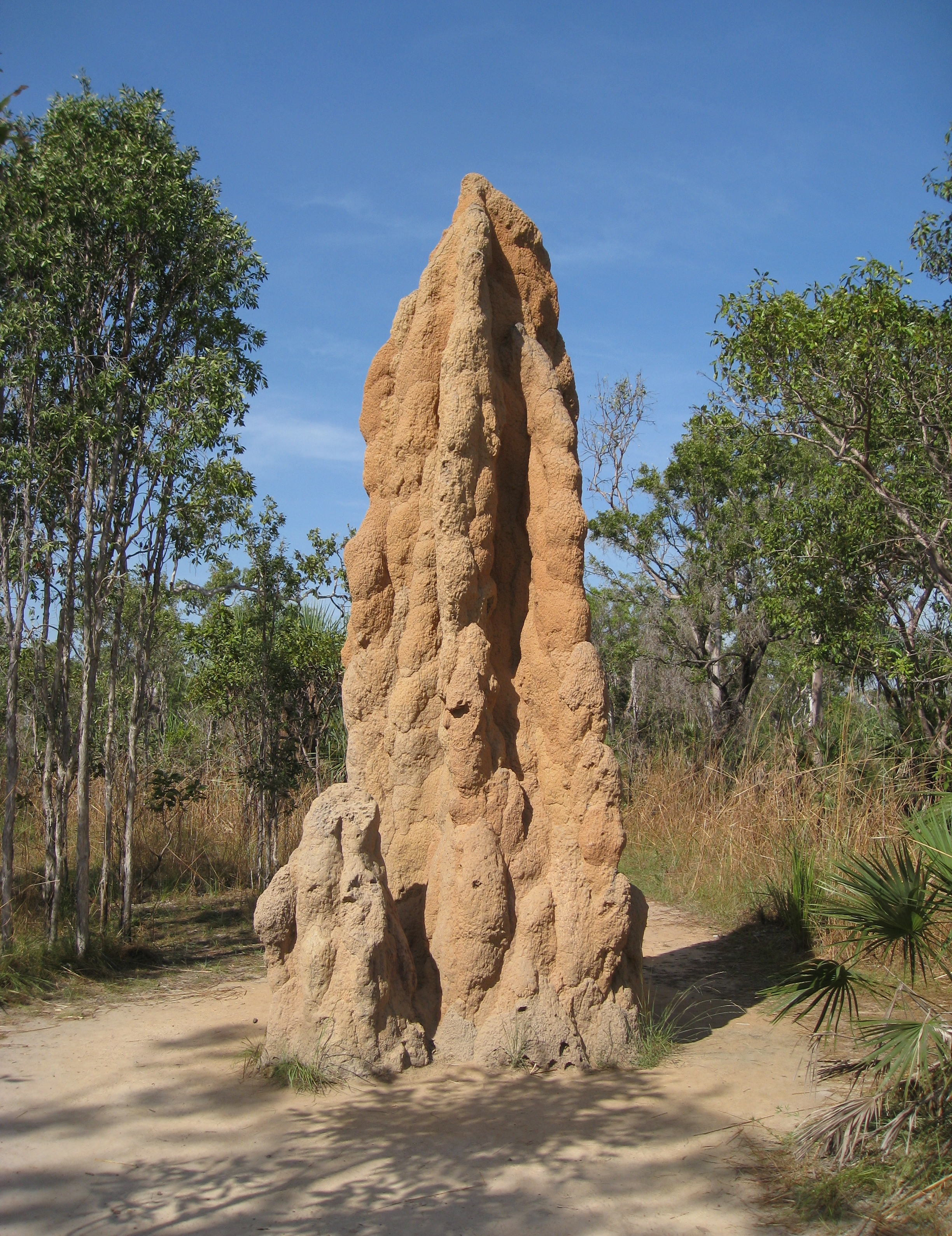 These termite mounds were most impressive. From the park sign: Cathedral Termite Mound This mound is home to a colony of grass eating termites, Nasutitermes triodiae. It's about 5 meters high and could be over 50 years old. Kingdom:Animalia Phylum:Arthropoda Class:Insecta Subclass:Pterygota Infraclass:Neoptera Superorder:Dictyoptera Order:Isoptera Family: Termitidae Litchfield National Park, Northern Territory, Australia i09_0501 027